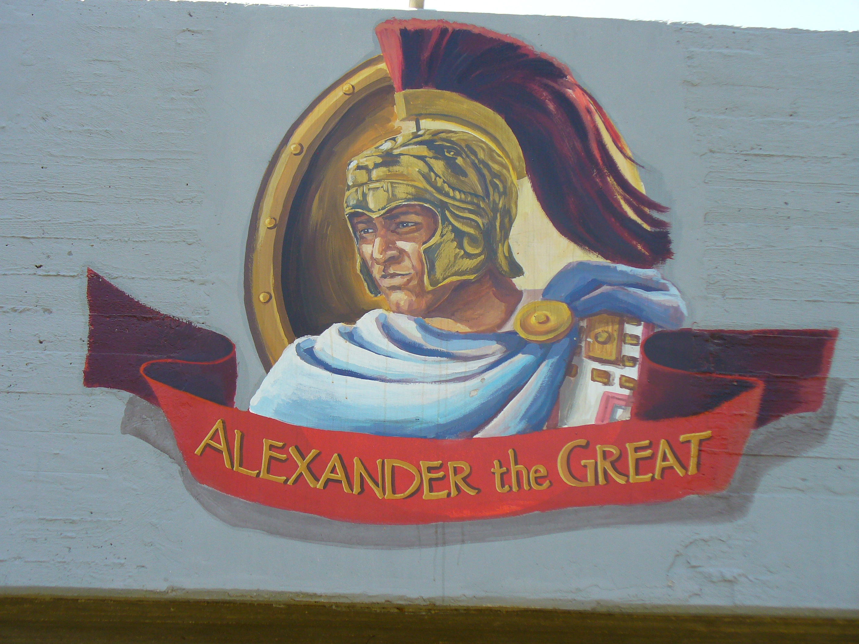 Wall painting of Alexander the Great, at the wall of Akko's Auditorium. Don't know the painters name though... More information (in Hebrew) about the paintings can be found here